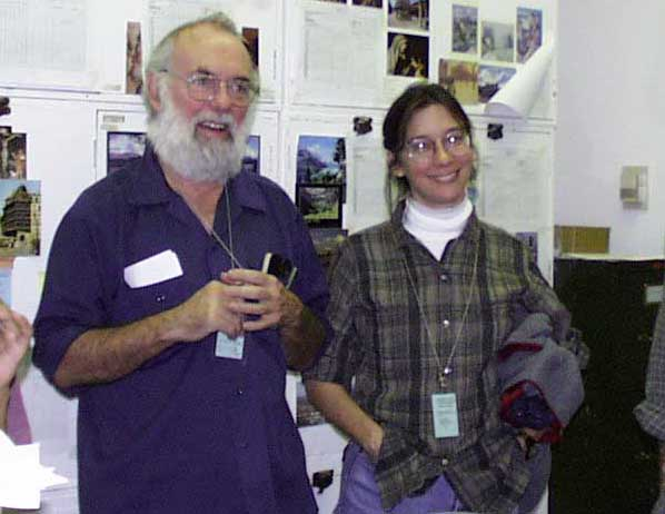 Dan Jazen and Winnie Hallwachs, American Museum of Natural History, 1998. Author J. Klemens.